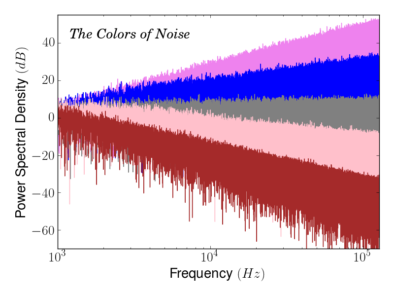 The colors noise as generated by Cnoise, the open source noise generator (available on github). The figure shows the color coded relative power spectral density (PSD) for brown, pink, white, azure, and violet noise normalized at 1kHz. Note the slopes of the PSD are -20, -10, 0, 10, 20 (dB/dec) for each noise spectum respectively.